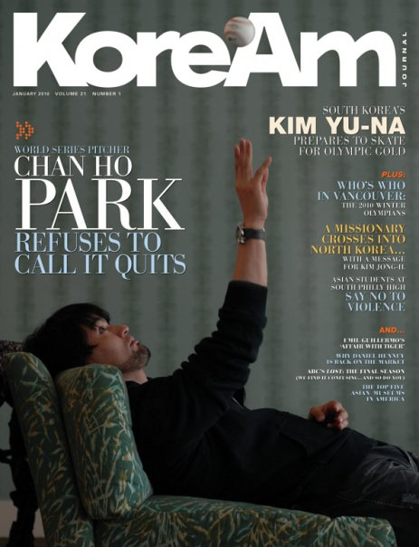 Magazine cover of KoreAm from January 2010; Chan Ho Park